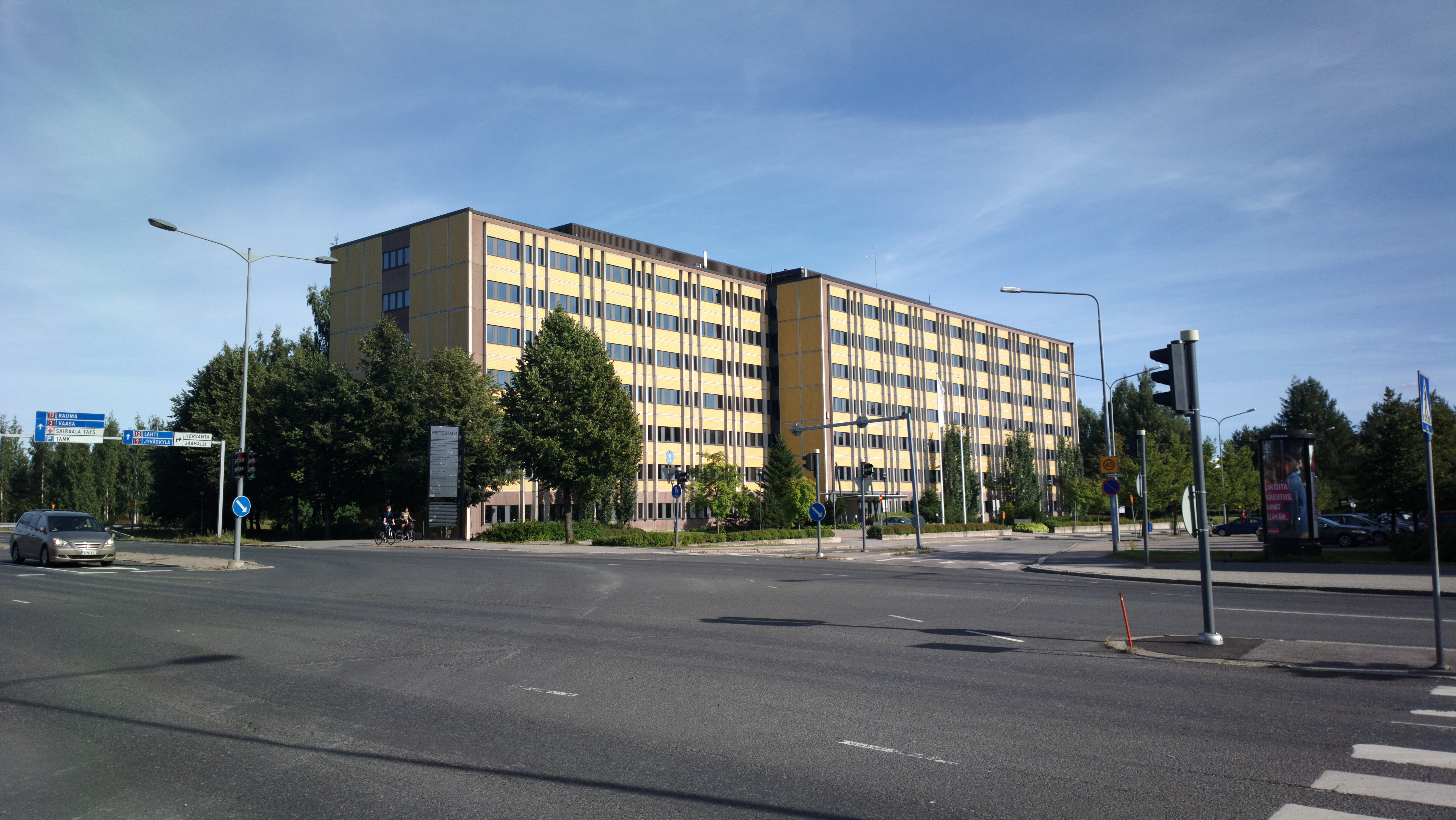 Hippostalo building